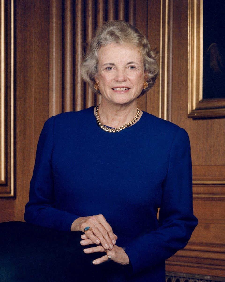 Sandra Day O'Connor, 1st Female Associate Justice of the Supreme Court of the United States